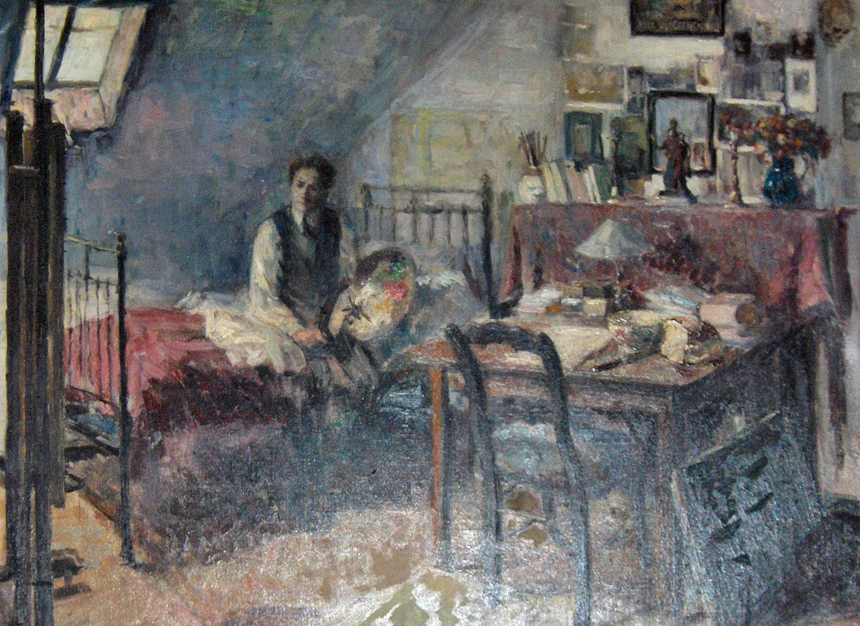 "Interior" by Gustave Anthone (1897-1925) private collection Oil painting on canvas 100 x 110 cm